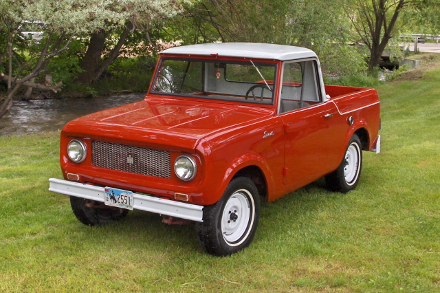 Restored 1961 International Scout 80